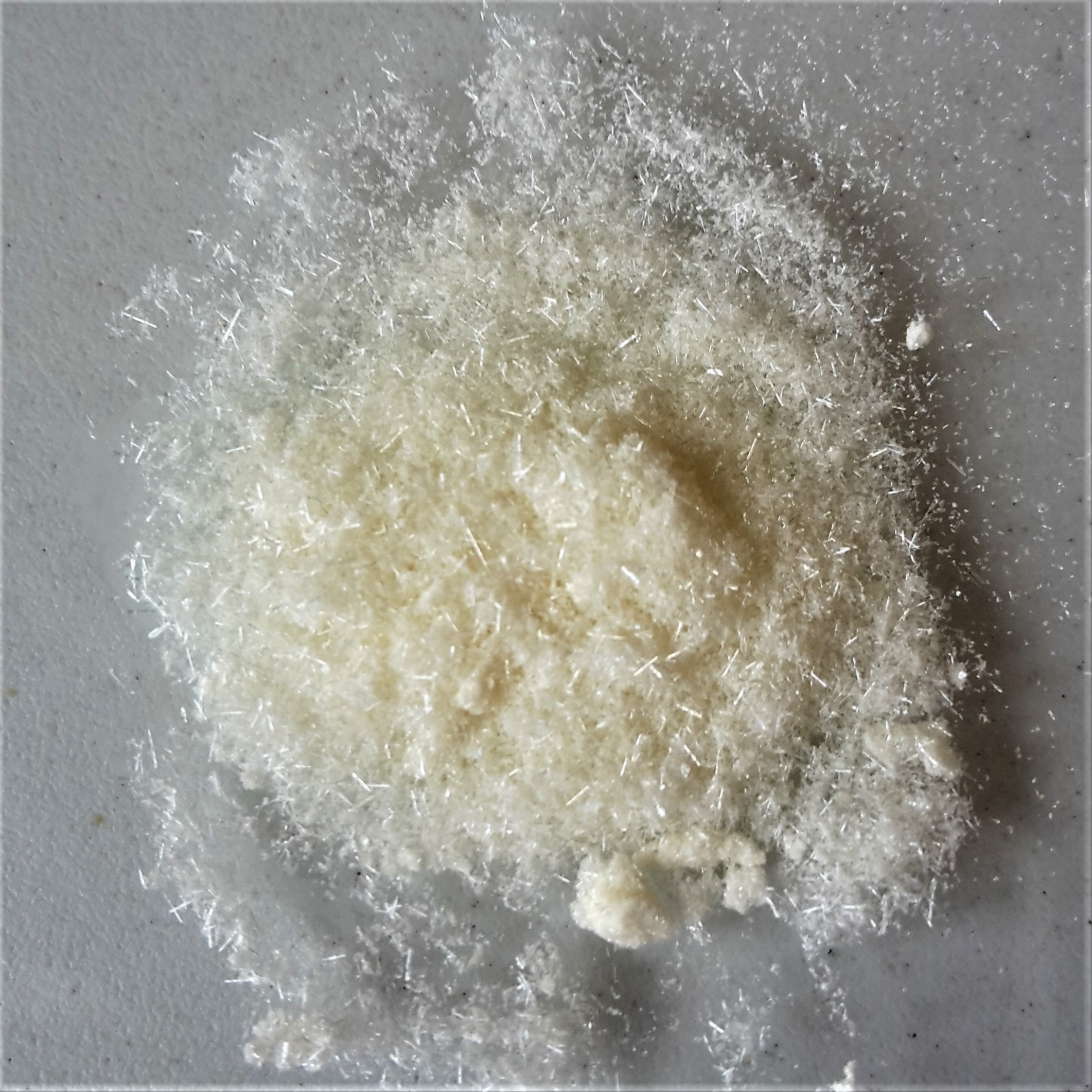 Aluminium acetylacetonate